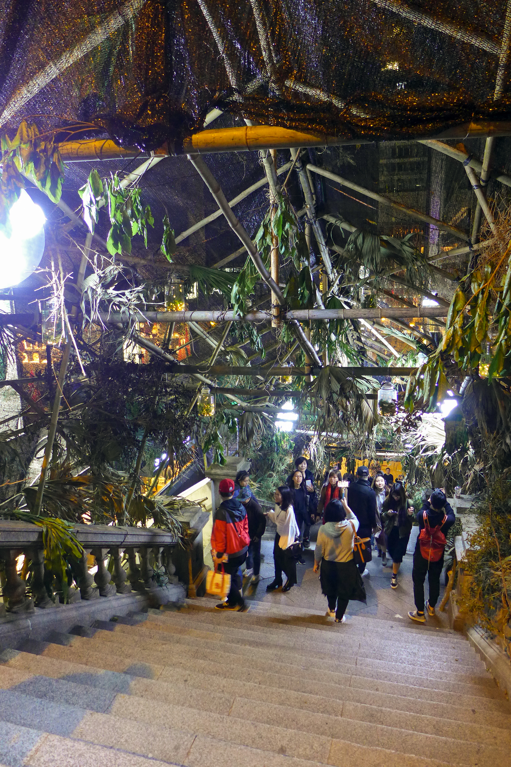 The Next Thing You Will See